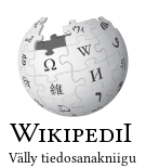 Livvi-Karelian Wikipedia logo